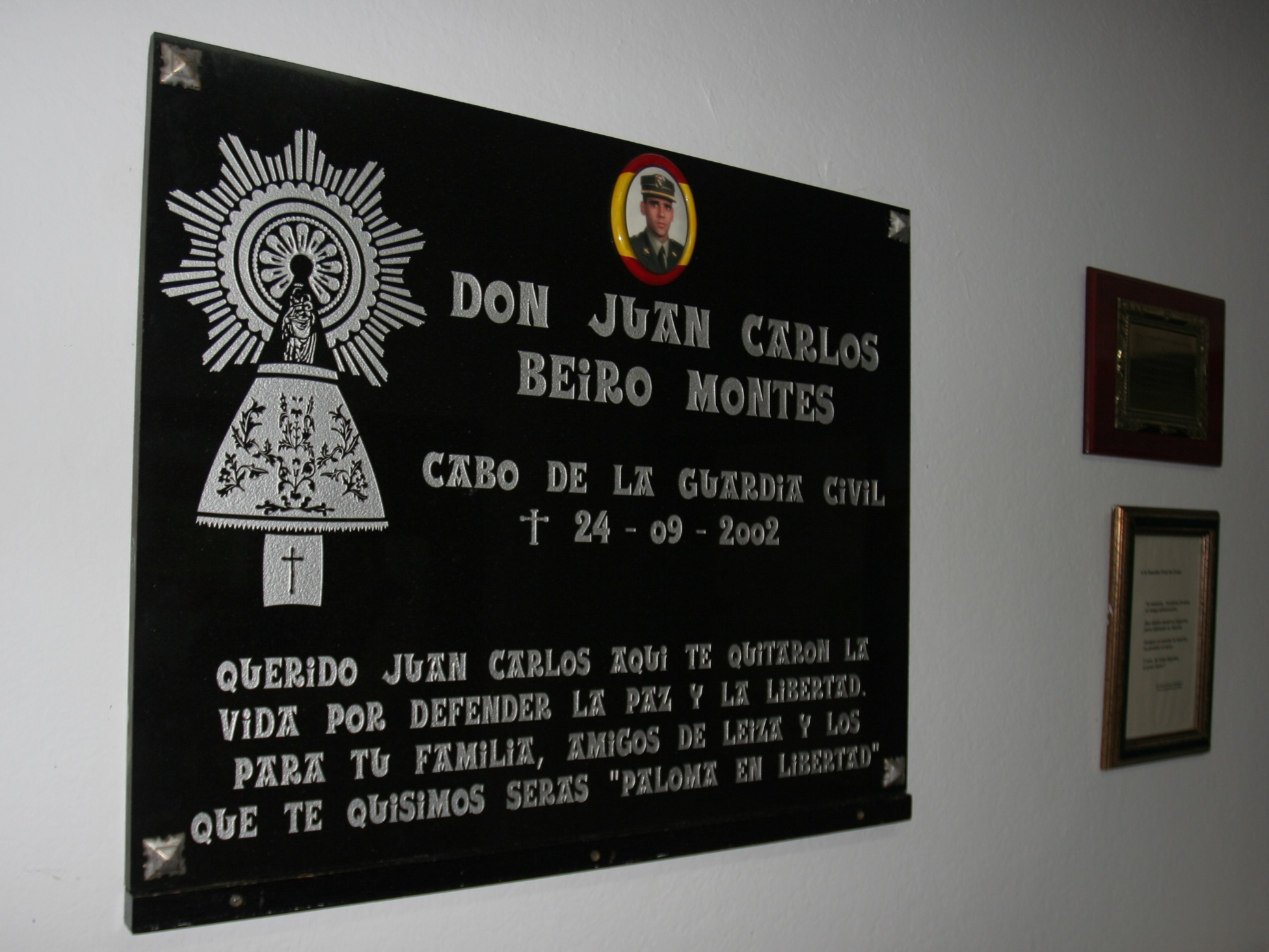 plaques commemorating Juan Carlos Beiro Montes, head of the Leitza Guardia Civil unit, killed by a bomb in 2002, on the wall of the Guardia Civil office in Leitza